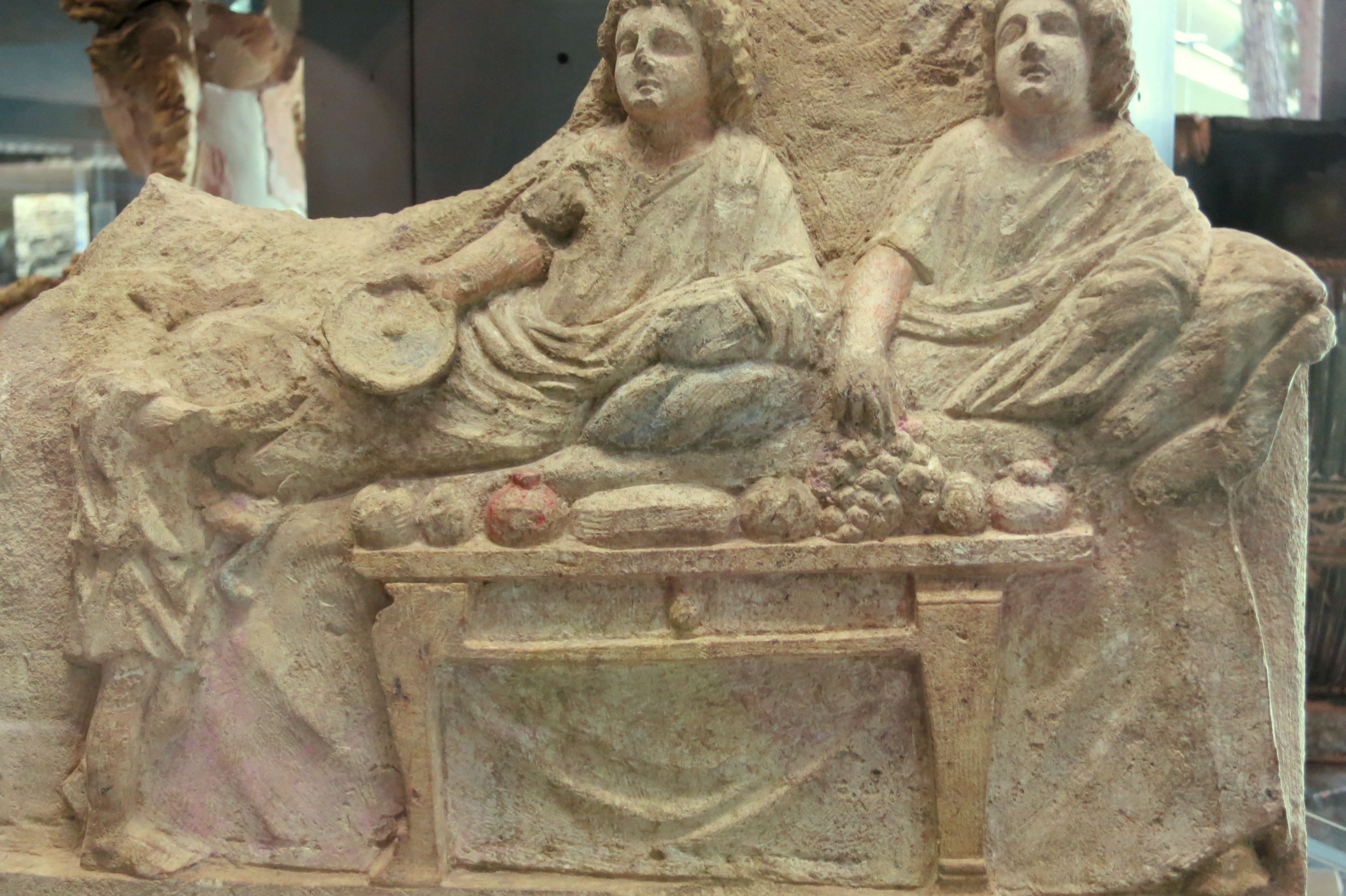 Gravestone with motive of symposium. Sicily. Archaeological Museum of Syracuse.